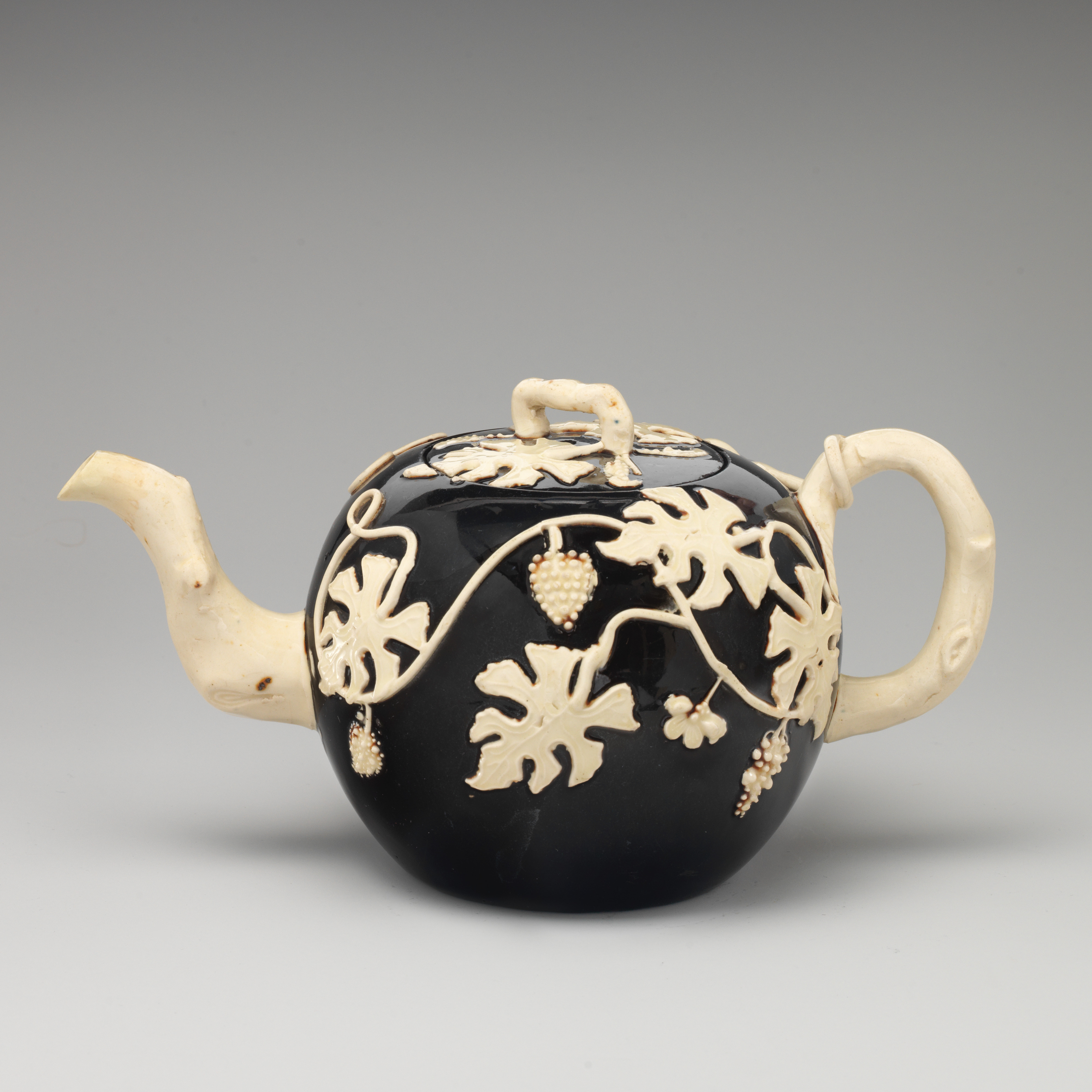 British, Staffordshire; Teapot; Ceramics-Pottery